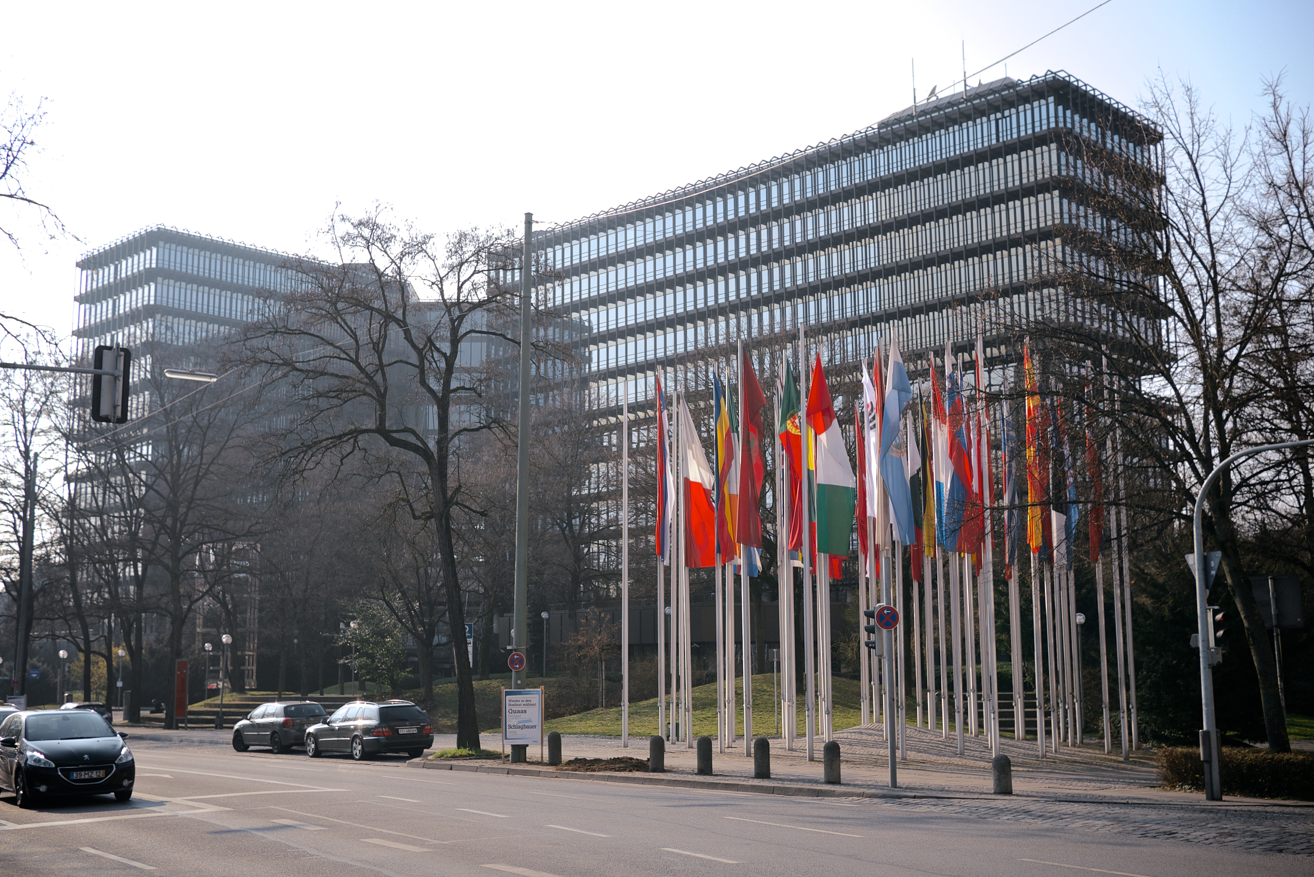 The European Patent Office (EPO) in Munich in 2014.